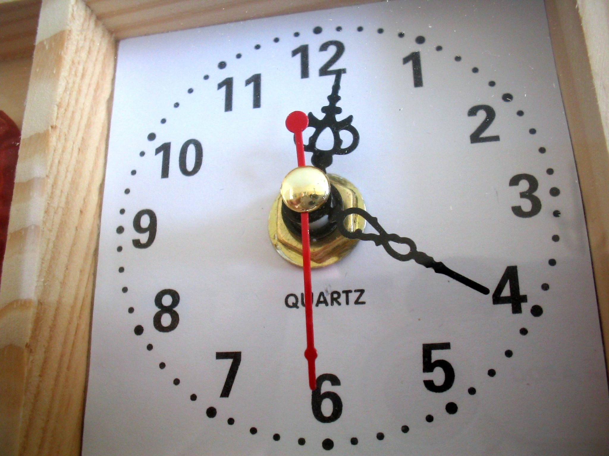 clock